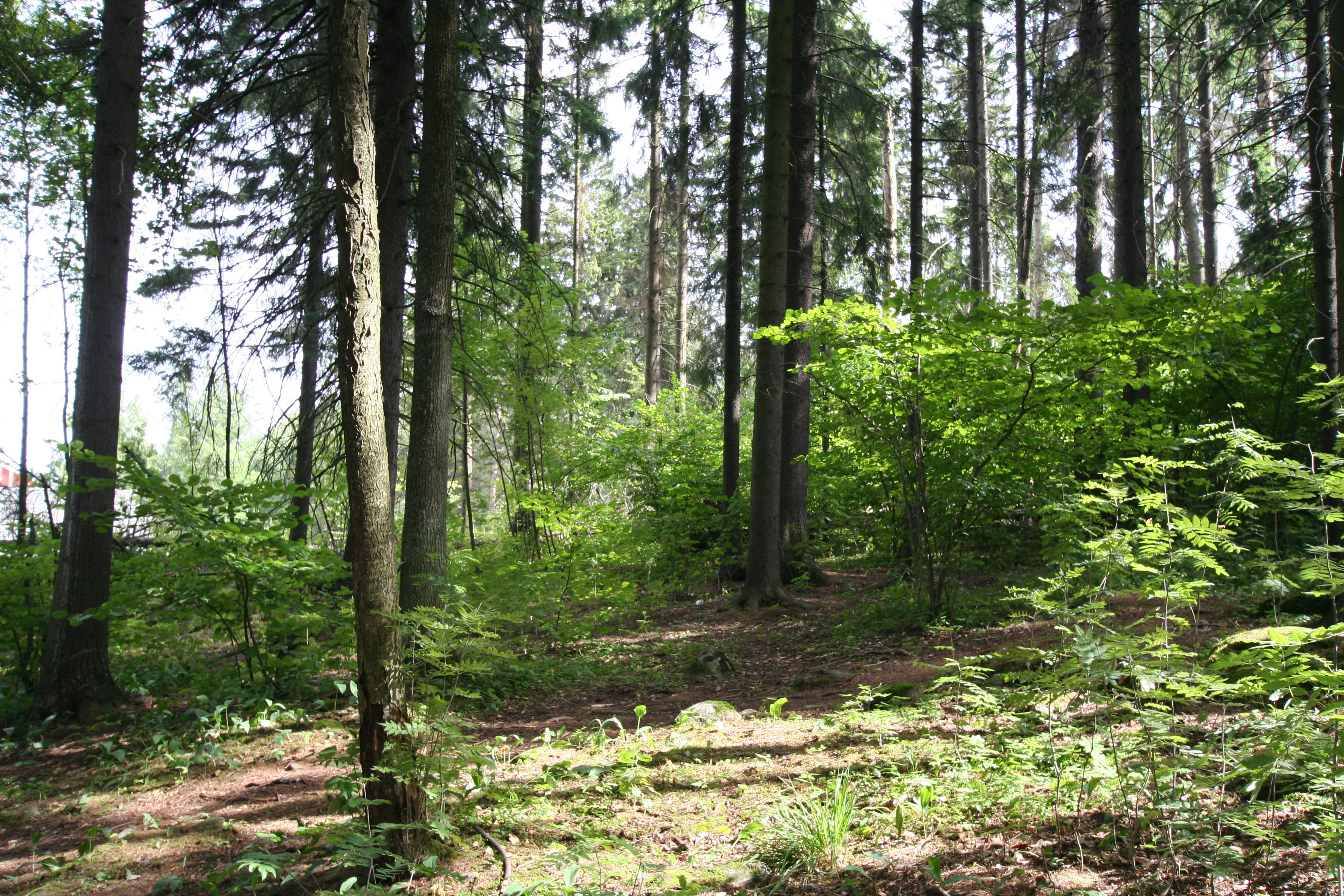 Tammisto forest. Vantaa, Finland.